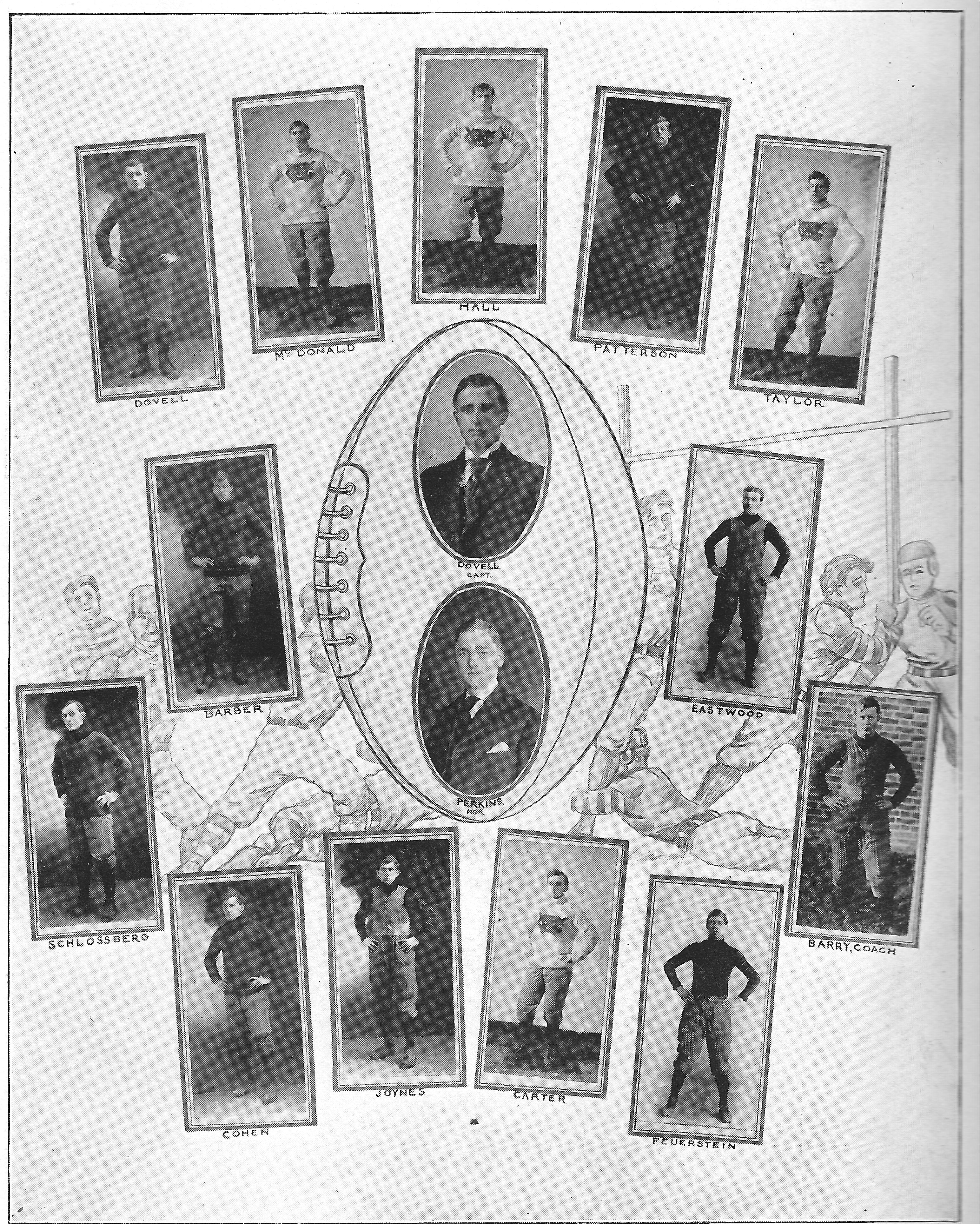 The picture of the 1907 William and Mary College Football Team is a scan from the 1908 William & Mary Colonial Echo. It is in the public domain.